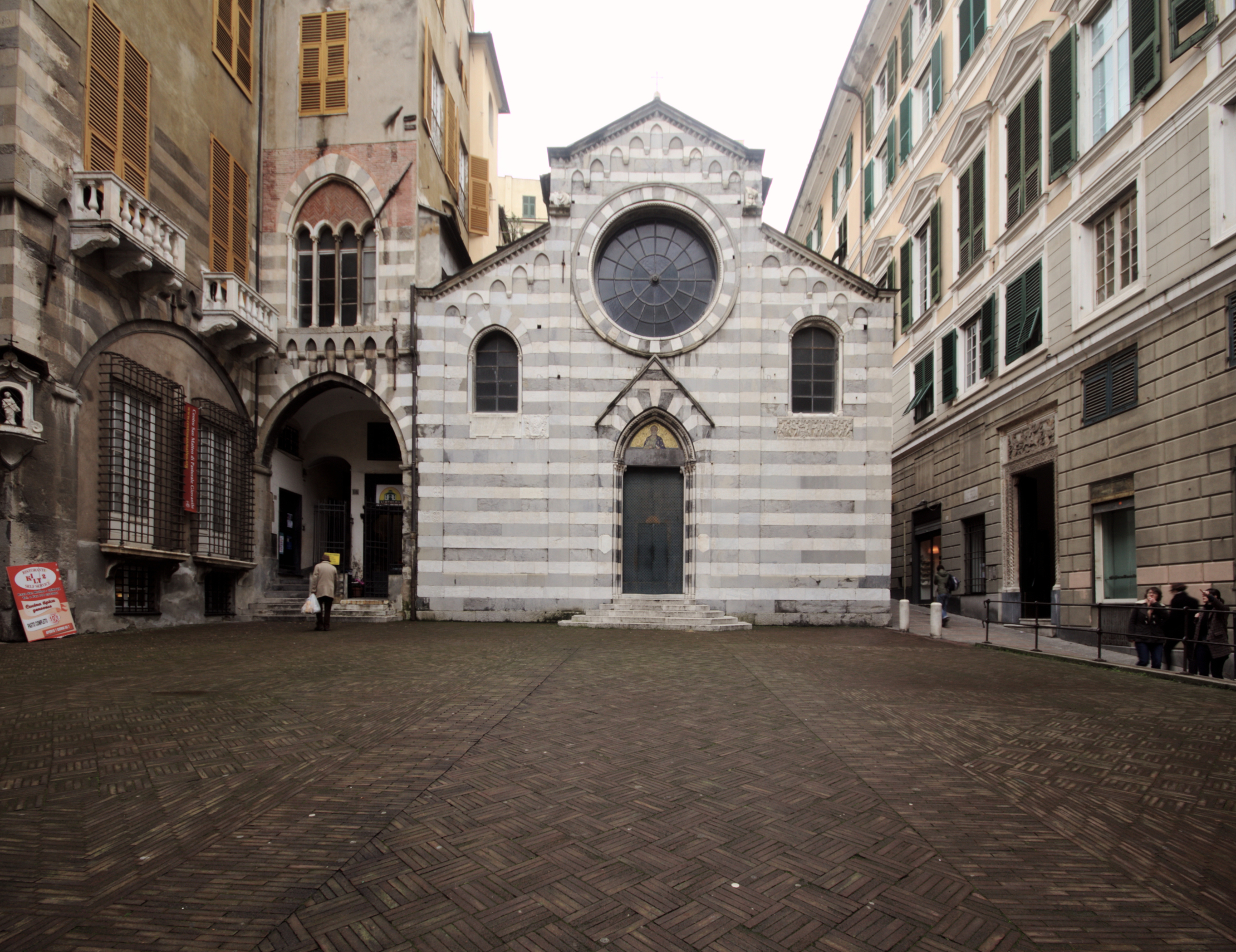 Piazza San Matteo (Genoa)